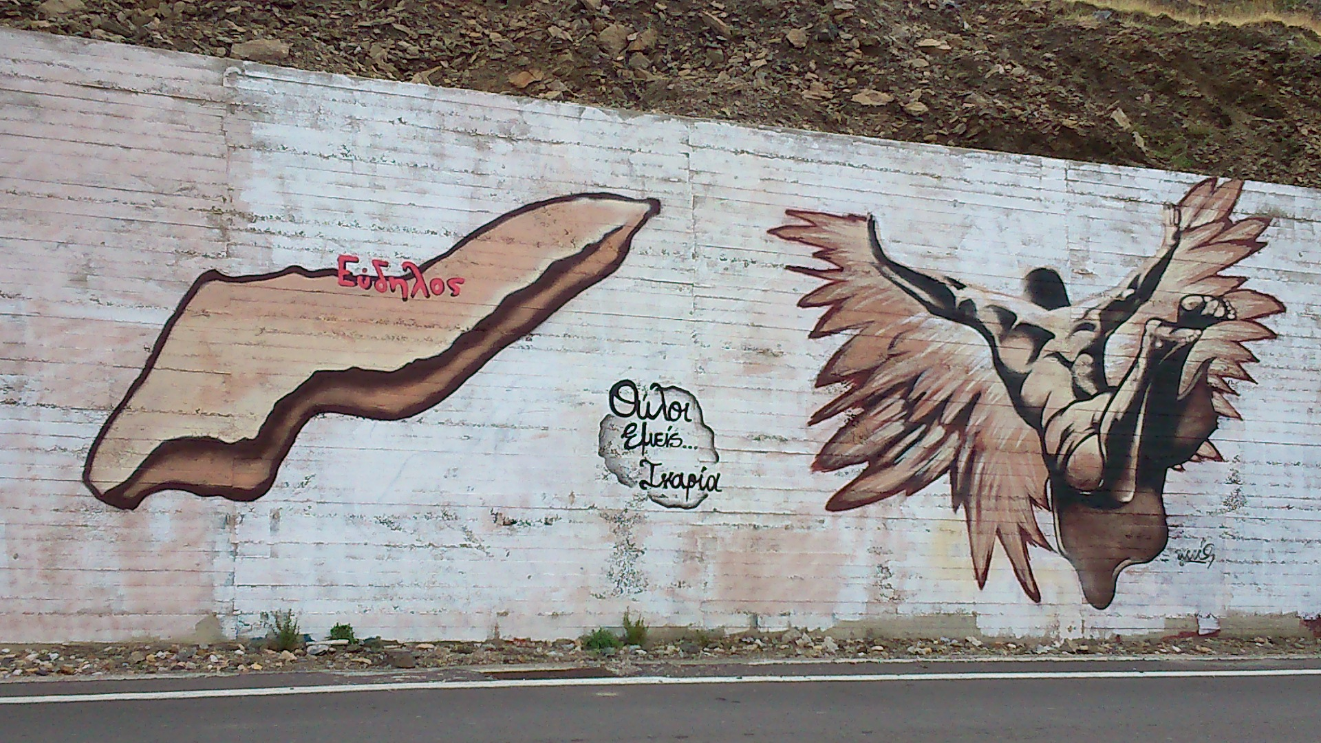 Graffiti of the island and Ikarus just outside the village of Evdilos in Ikaria island - Greece